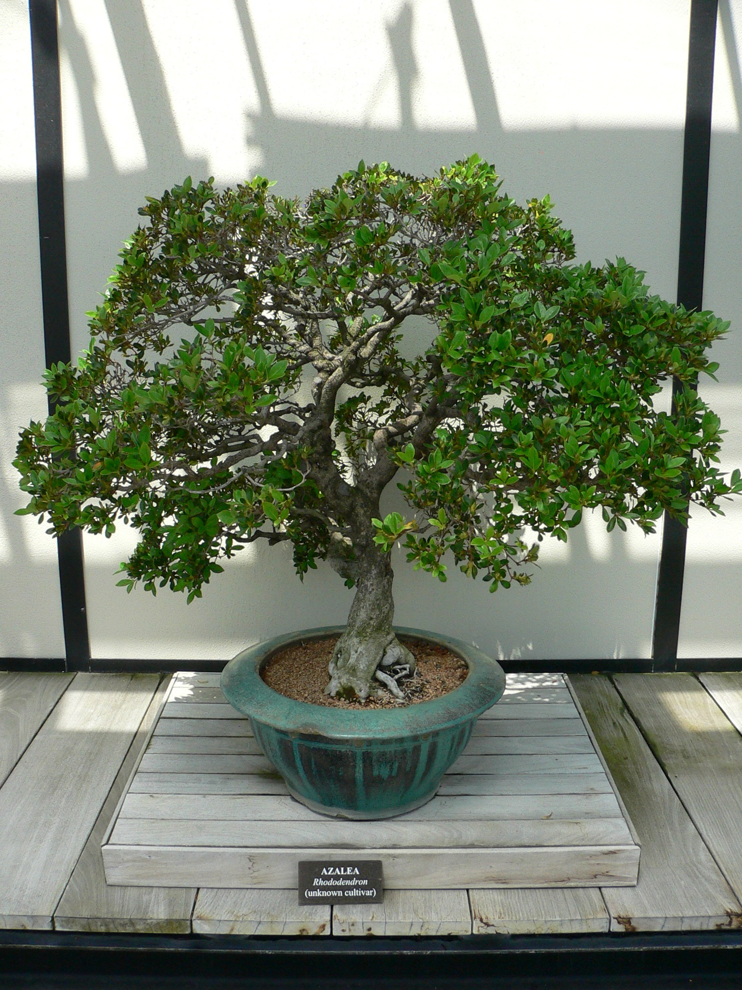 Pictures taken by myself at Longwood Gardens